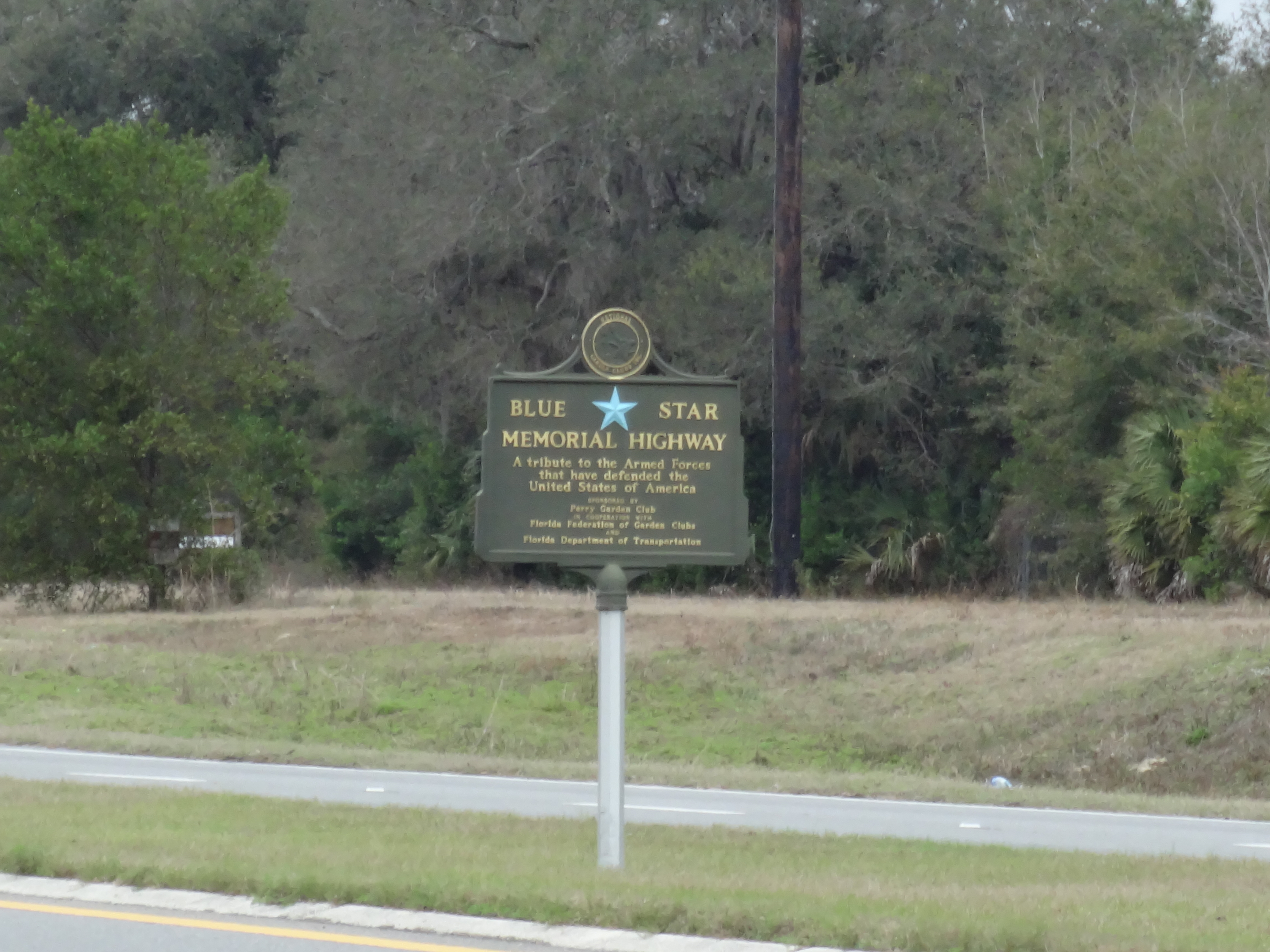 Perry, Taylor County, Florida